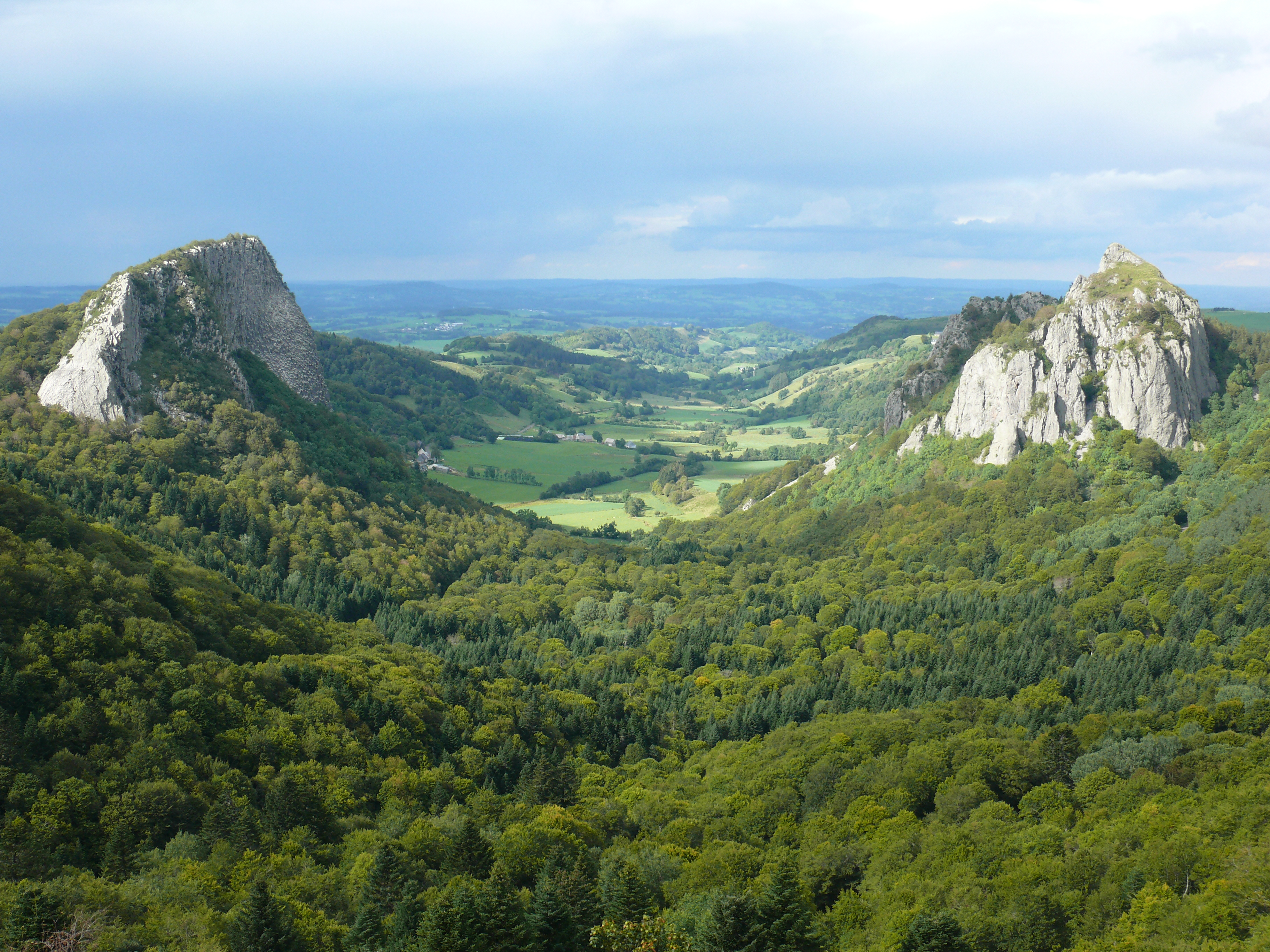 The Roche Tuilière (left) and the Roche Sanadoire (right), parc naturel régional des volcans d'Auvergne